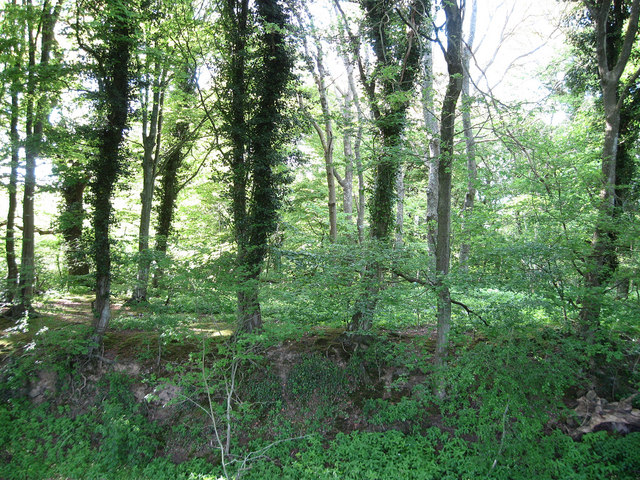 Site of Glottenham Castle Only earthworks and part of the moat remain from a former 13th century fortified house that was abandoned sometime in the 16th-17th century. Viewed through a fence from the footpath that links Mountfield Lane and Glottenham Manor.